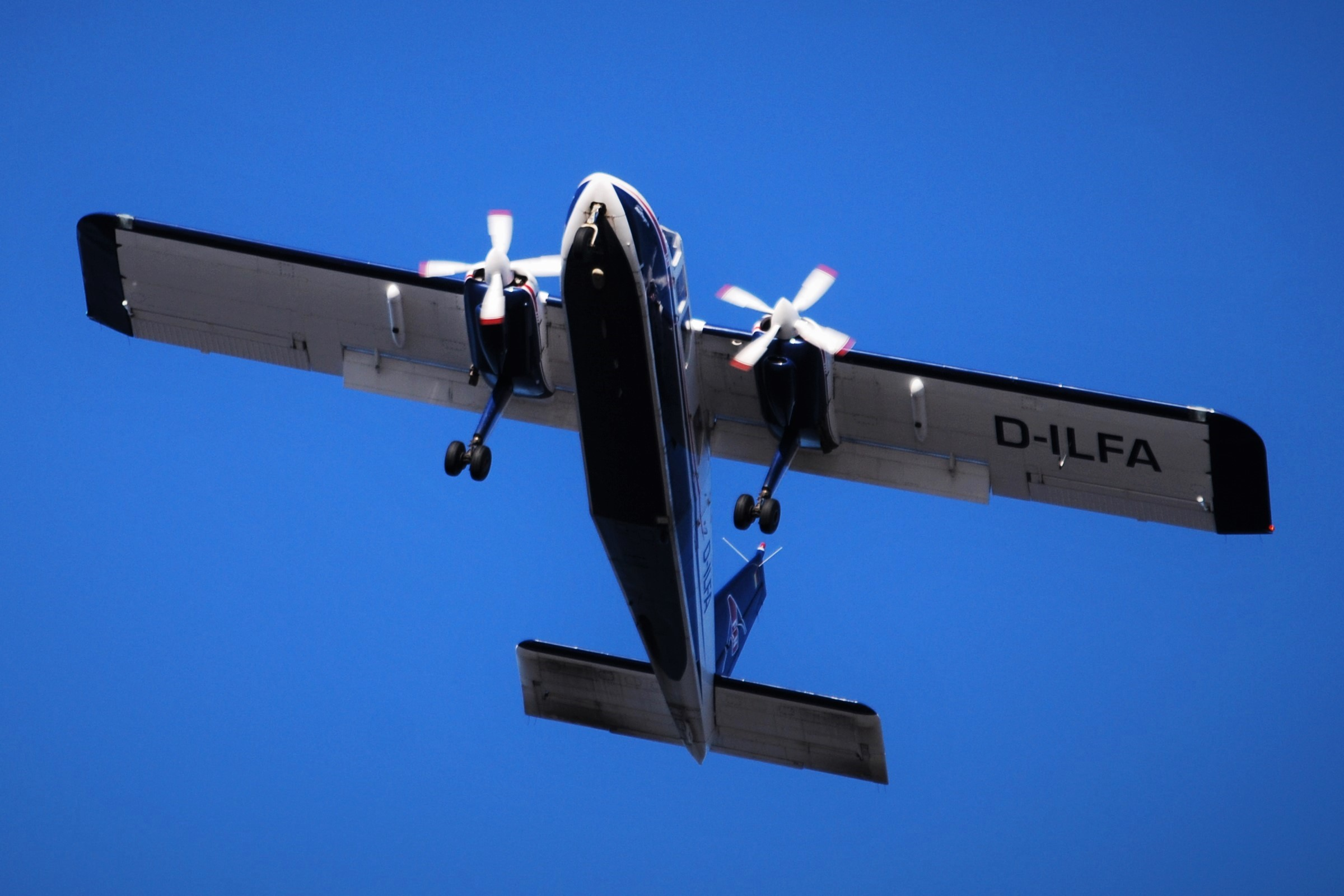 The Britten-Norman BN-2 Islander is a 1960s British light utility aircraft, regional airliner and cargo aircraft designed and originally manufactured by Britten-Norman of the United Kingdom. Still in production, the Islander is one of the best-selling commercial aircraft types produced in Europe.